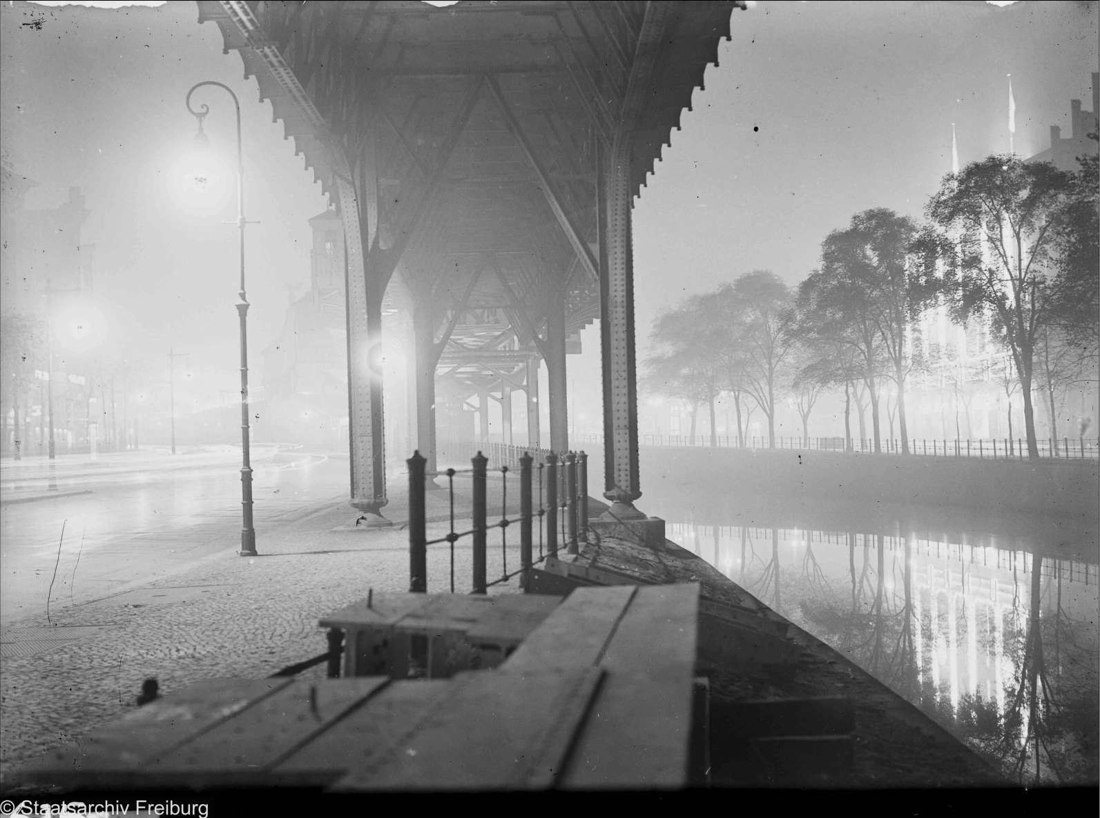 Elevated railway on the Landwehr Canal , coming from Möckern Bridge, Berlin